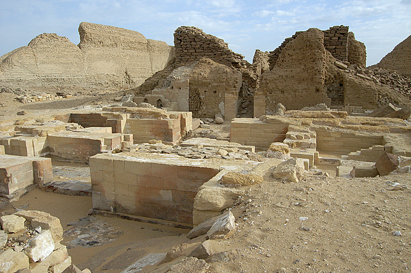 South temple (ST 18), Dimai, el-Fayyum, Libyan desert, Egypt